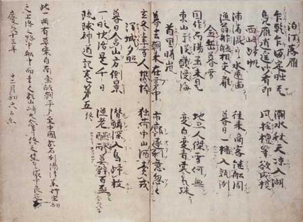 Ryukyu Shinto-ki by Taichu, Taichu-an, Kyoto, Japan